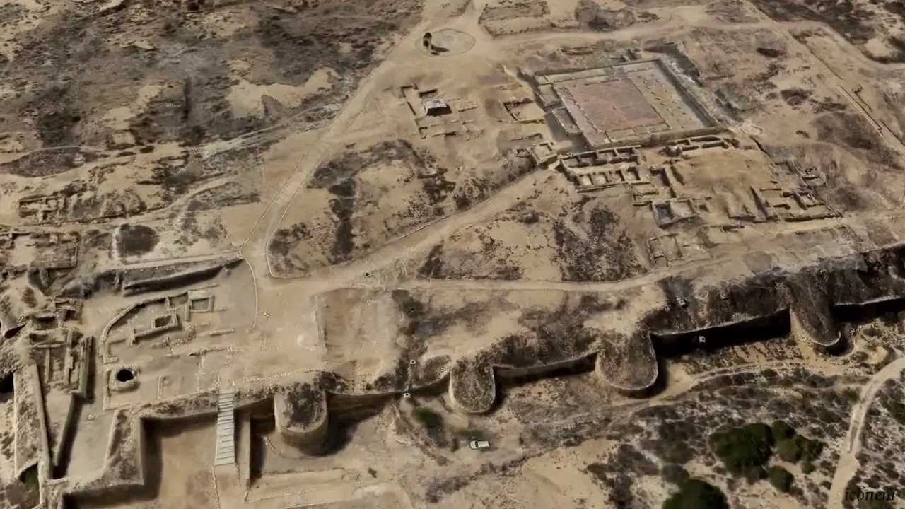 Aerial View of Banbhore fort